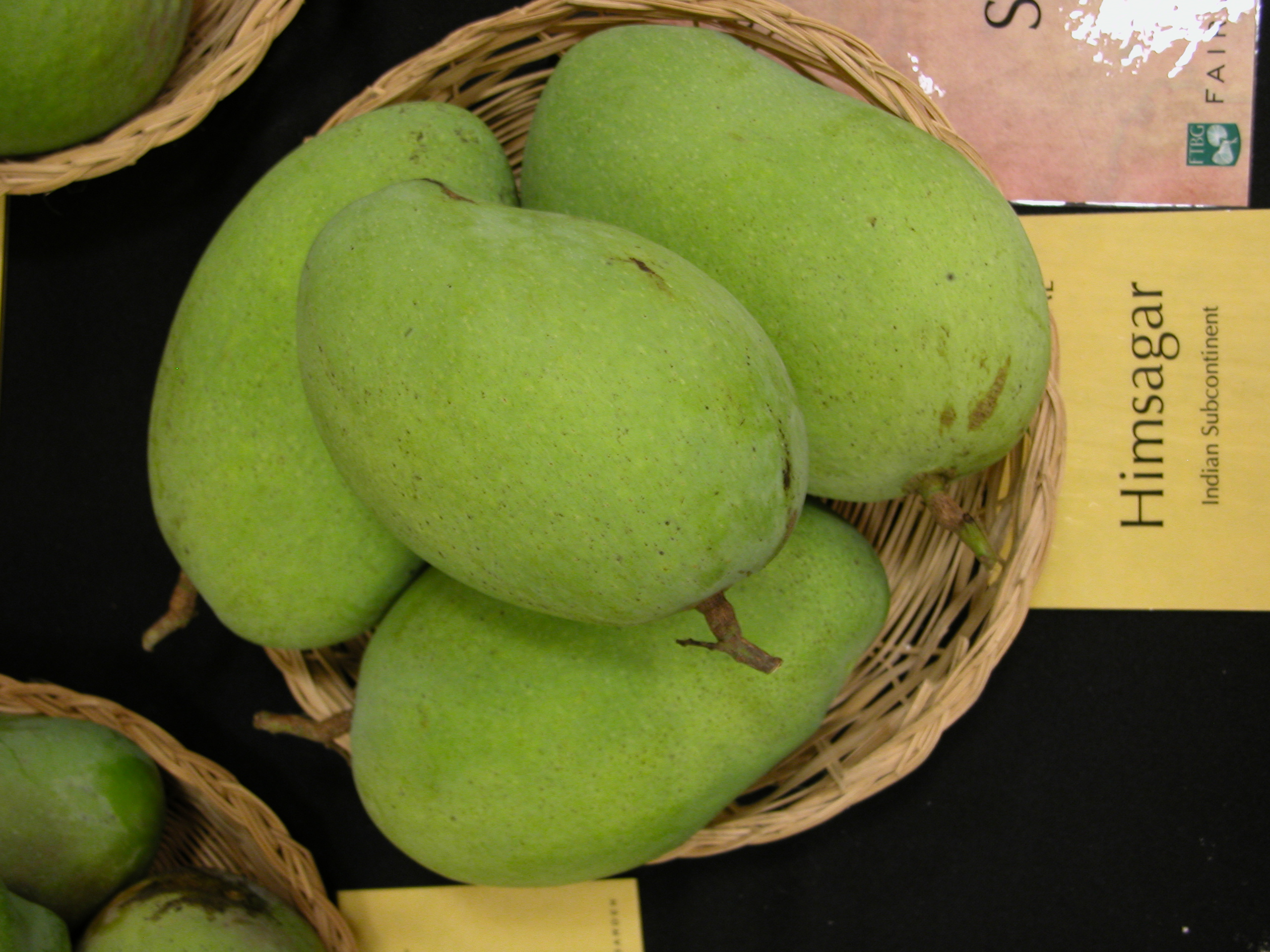 This is a photo of the display of Himsagar mango at the 15th Annual International Mango Festival at the Fairchild Tropical Botanic Garden in Coral Gables, Florida.